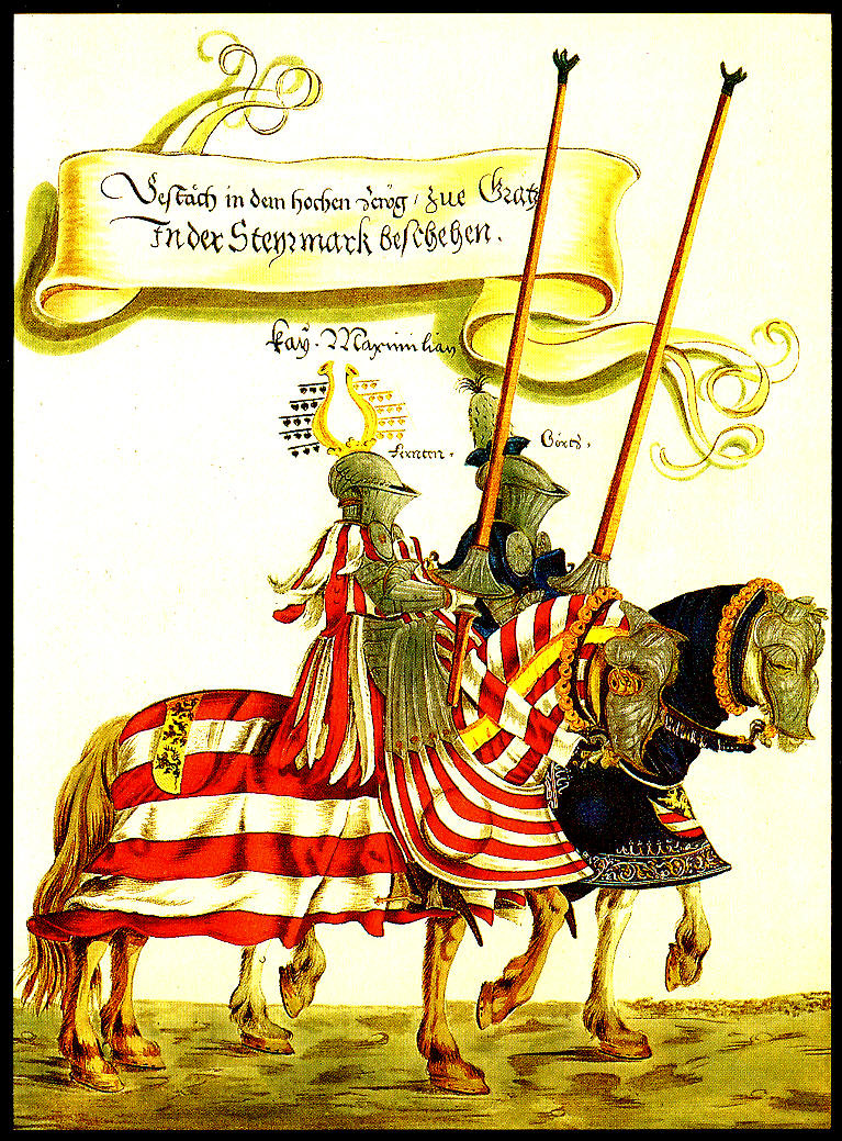 Hans Burgkmair the Younger (c. 1500-1559) , Emperor Maximilian I, from his Turnierbuch